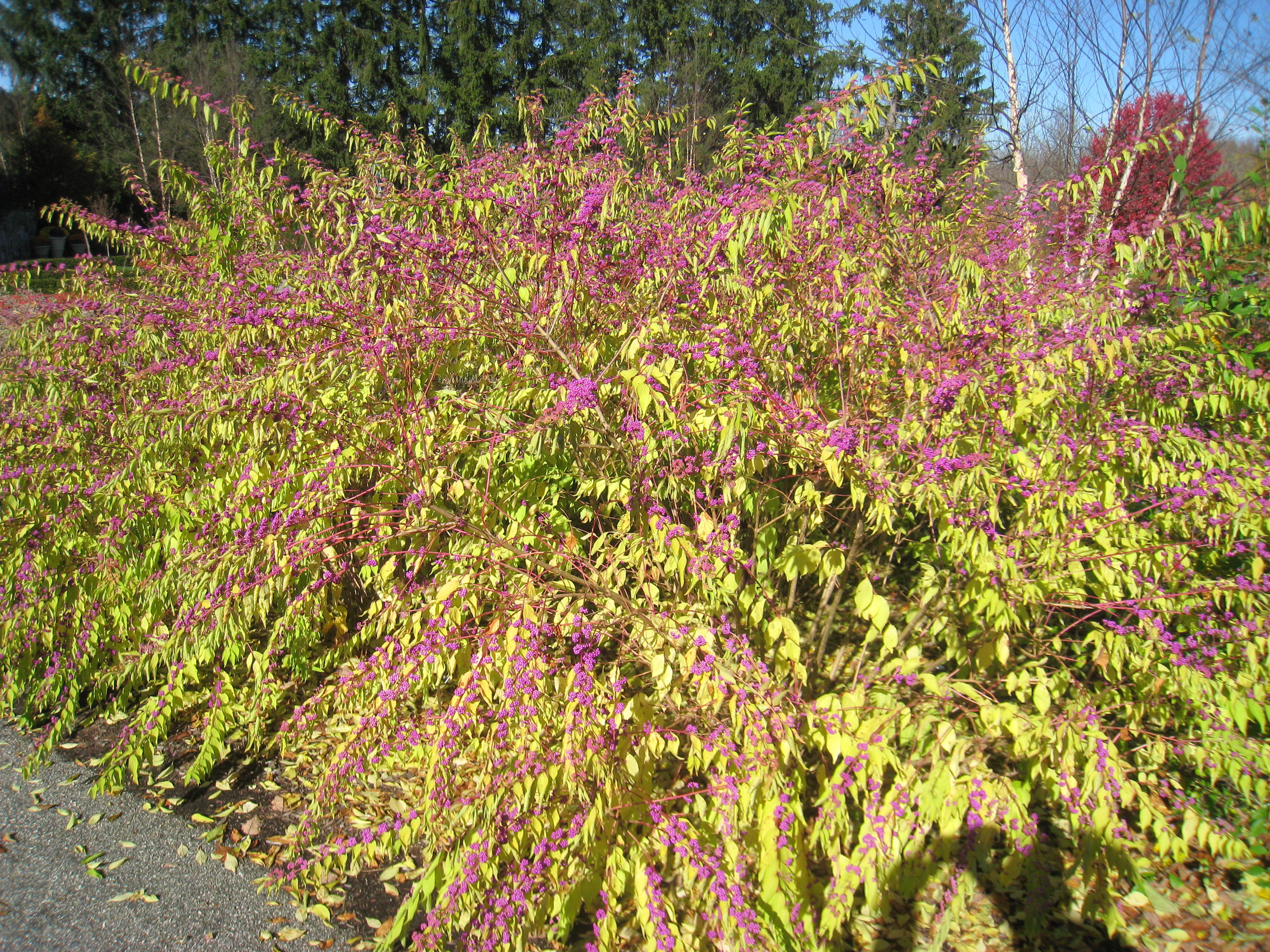 Callicarpa japonica 'Issai' specimen in Lasdon Park and Arboretum, Somers, New York, USA.